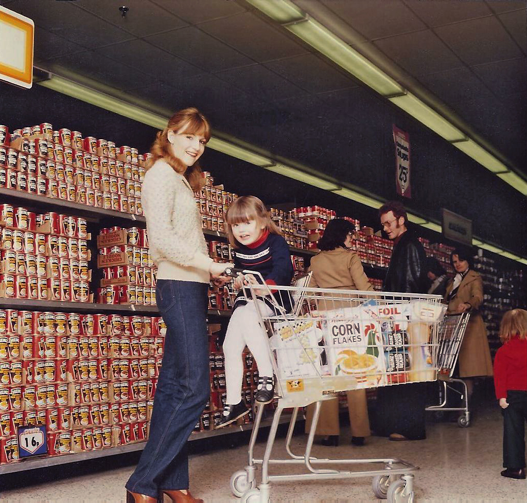 Mother and child in a "Presto" grocery store, 1970s. Glenrothes, Fife.